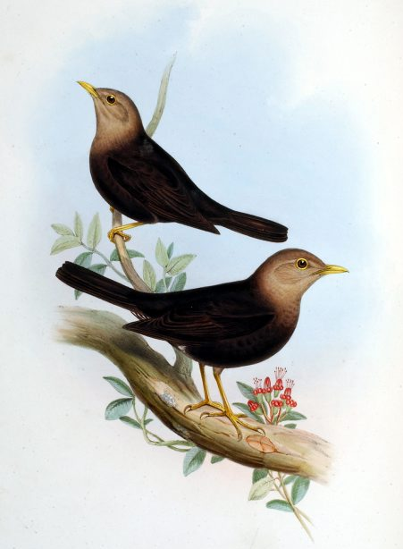 Pair of Norfolk Island Thrushes (Turdus poliocephalus poliocephalus) from The Birds of Australia Supplement, 1851-1865 by John Gould.